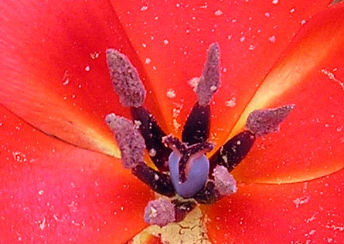 Pistil of tulip